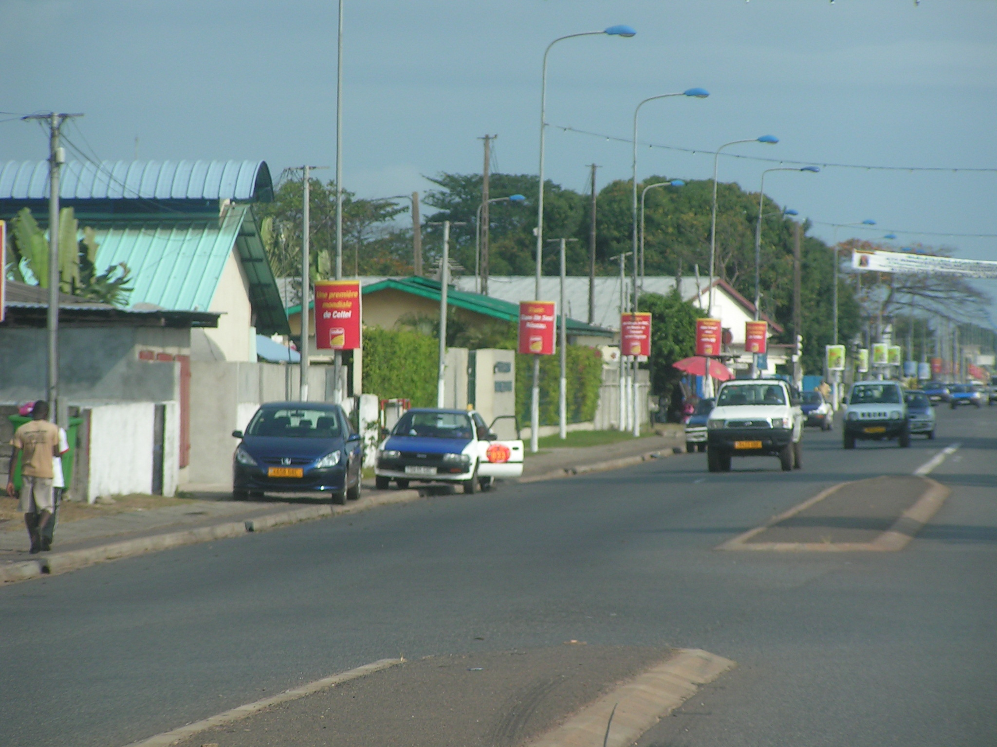 Port-Gentil, Gabon street scene 1.